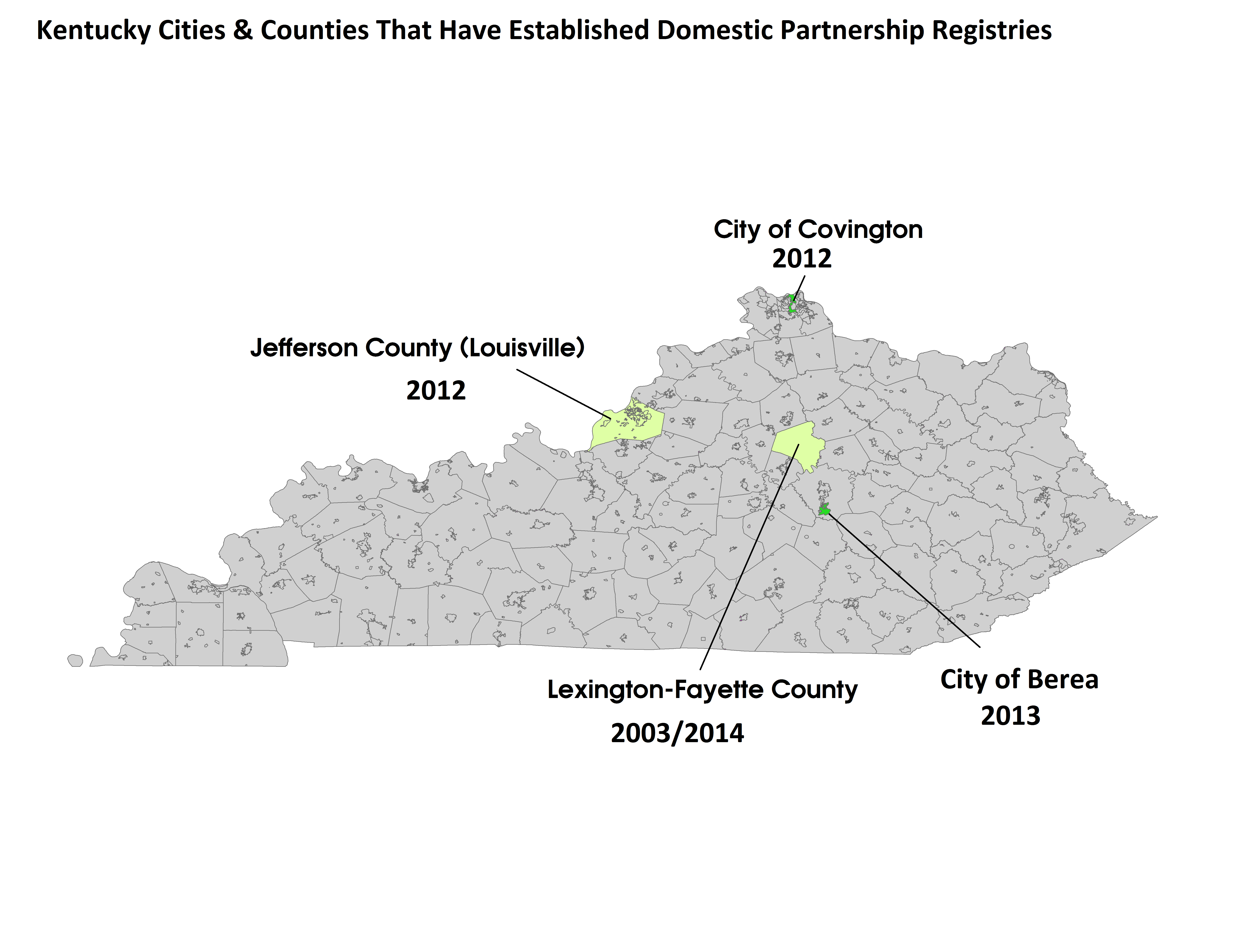 Map of Kentucky counties and cities that offer domestic partner benefits either county-wide or in particular cities. City offers domestic partner benefits County-wide partner benefits through domestic partnership County or city does not offer domestic partner benefits